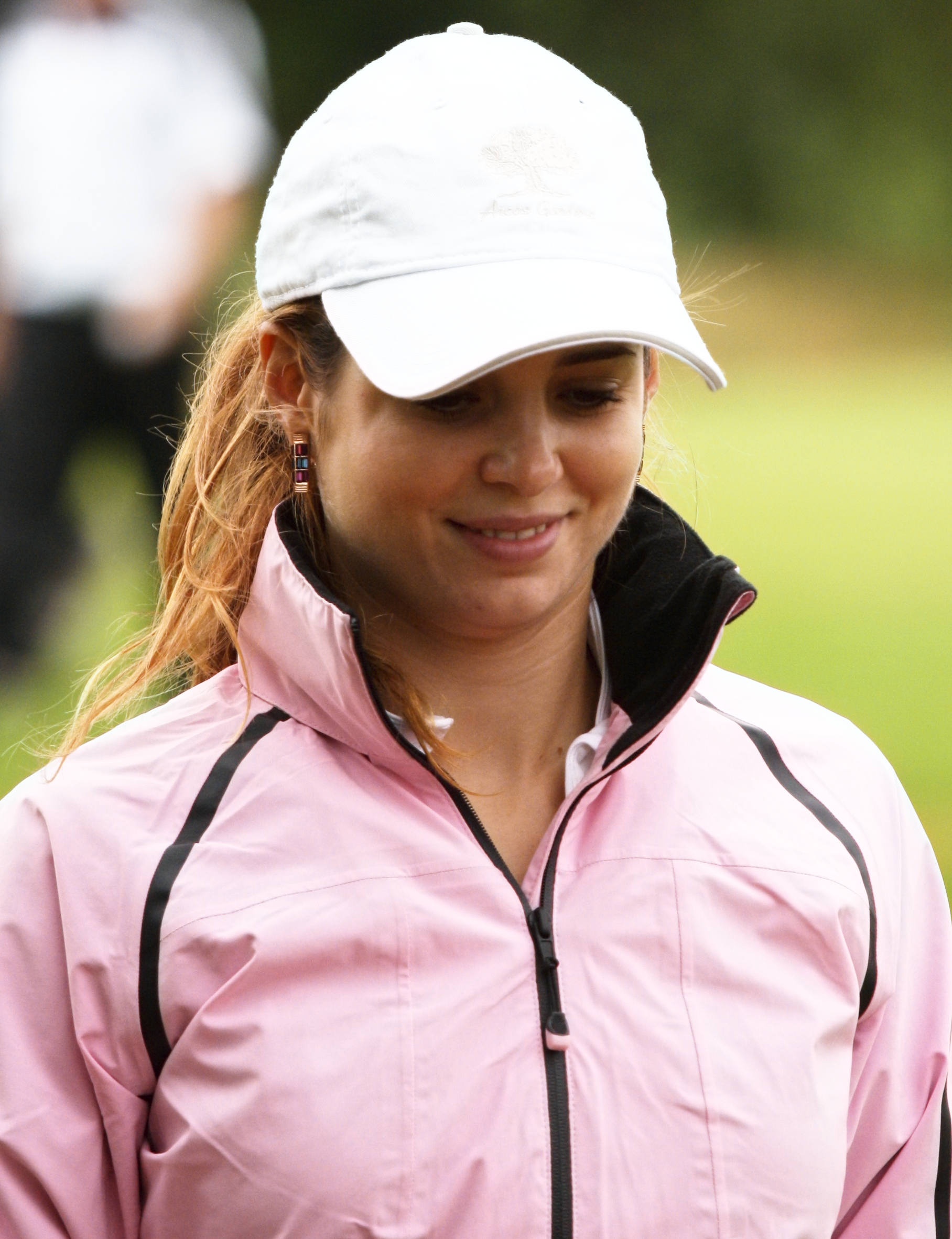 LYTHAM ST ANNES, UNITED KINGDOM - JULY 29: Beatriz Recari of Spain walks off the 11th green during third practice round before 2009 Ricoh Women's British Open held at Royal Lytham & St Annes on July 29, 2009 in Lytham St Annes, England. (Photo by Wojciech Migda)